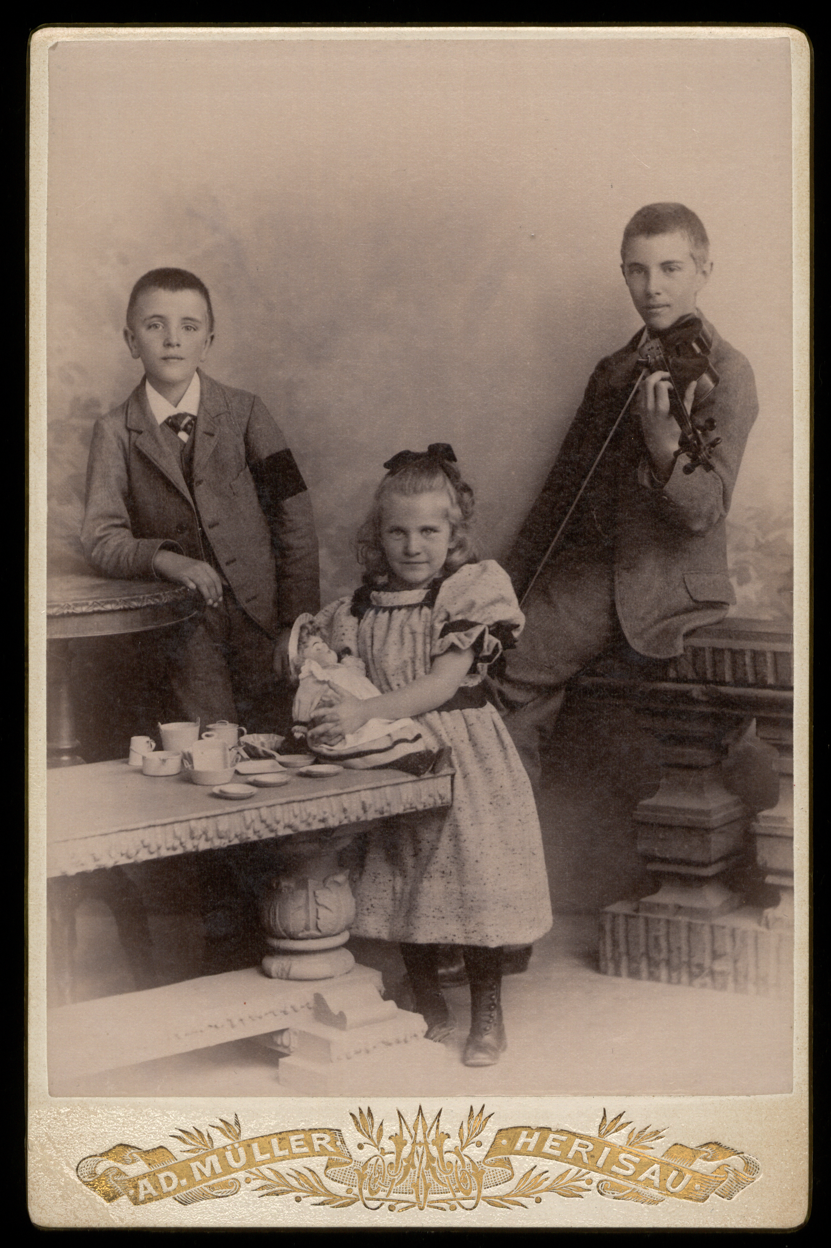 Portrait of Rudolf Riggenbach (1882-1961), photo